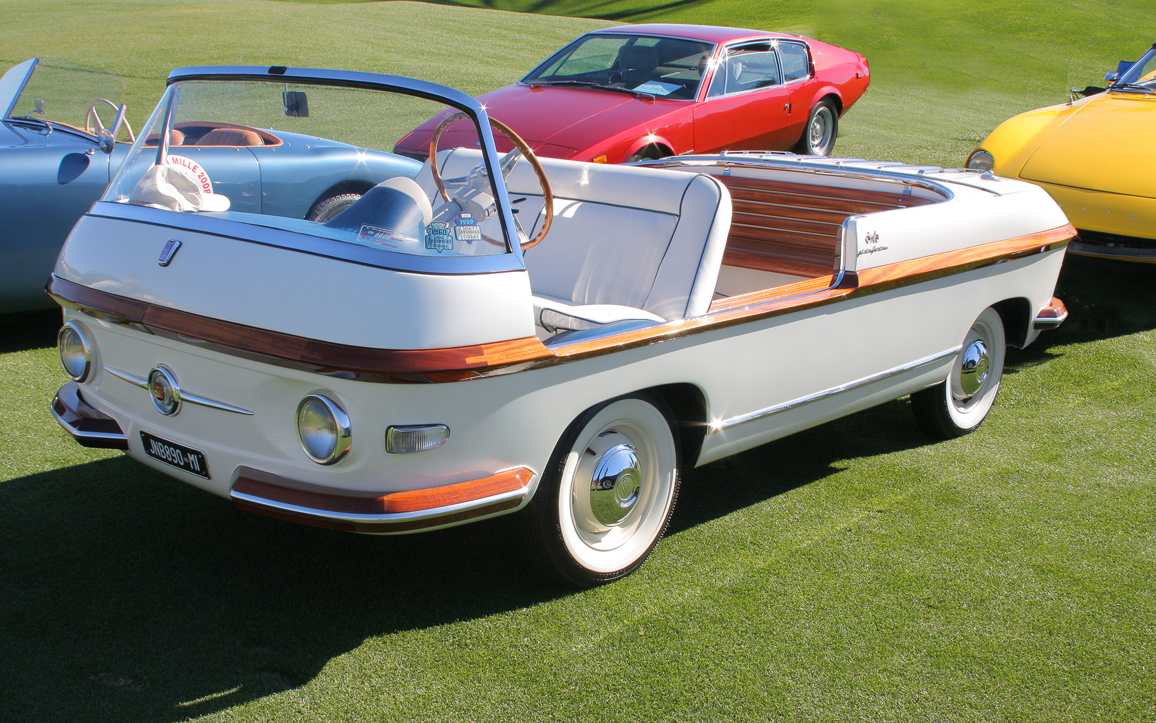 1958 Fiat 600 Eden Roc by Pininfarina at the 2011 Desert Classic, La Quinta, CA.